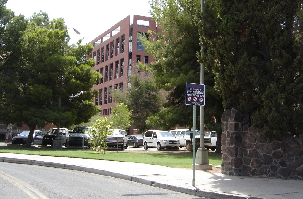 University of Arizona